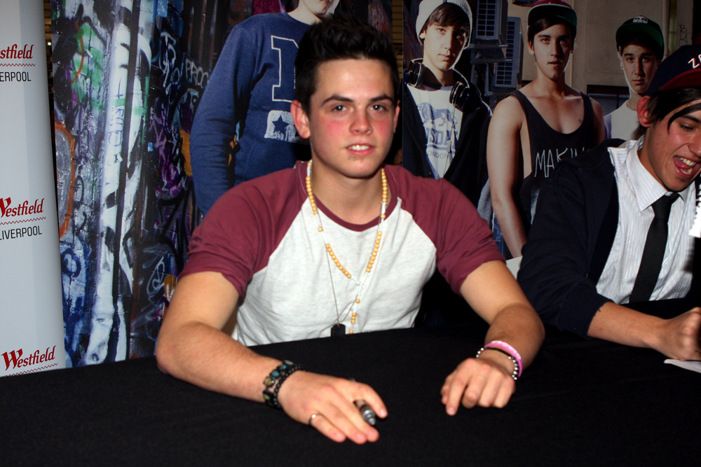 Janoskians appearance at Liverpool, Westfield